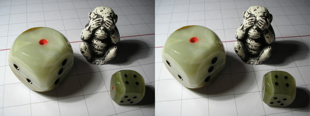 This picture is made for viewing in 3D using a crossed eye method. See Stereoscopy.